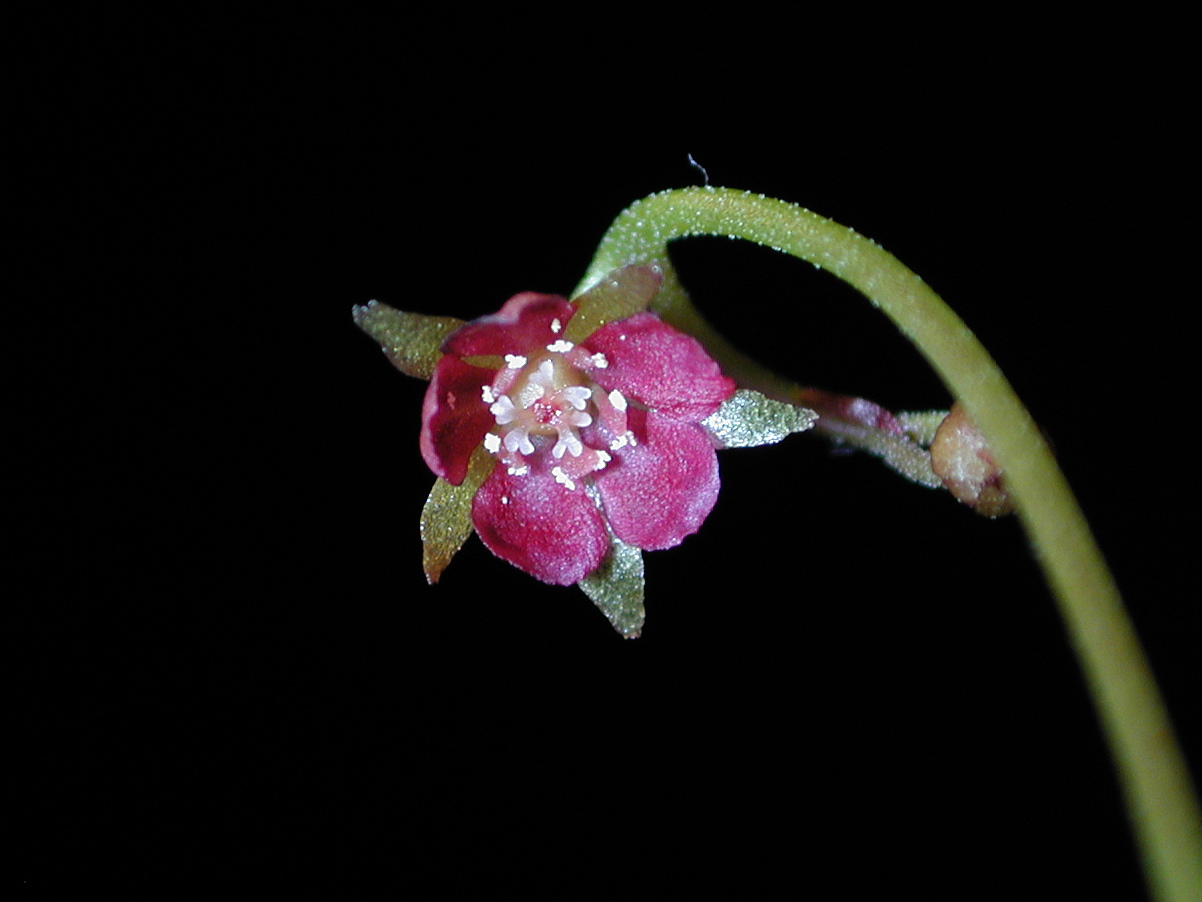 Changes made: cropped